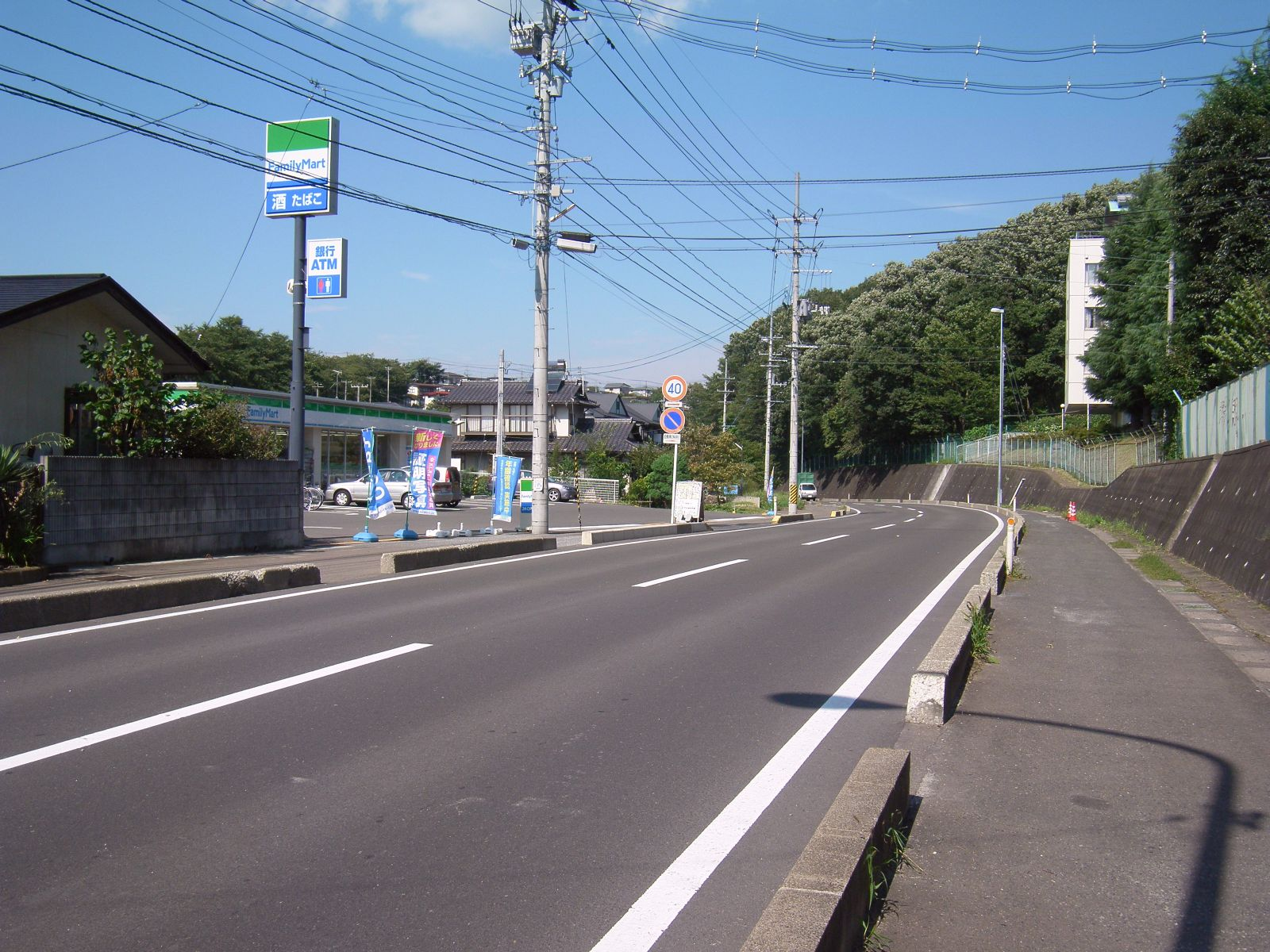 Miyagi Prefectural Road 156, Sendai-Sanbongi Line. Izumi ward, Sendai, Miyagi prefecture, Japan. Border of Yamanotera (left) and Tenjinsawa (right). From the front of the Izumi Campus of Tōhoku Gakuin University.